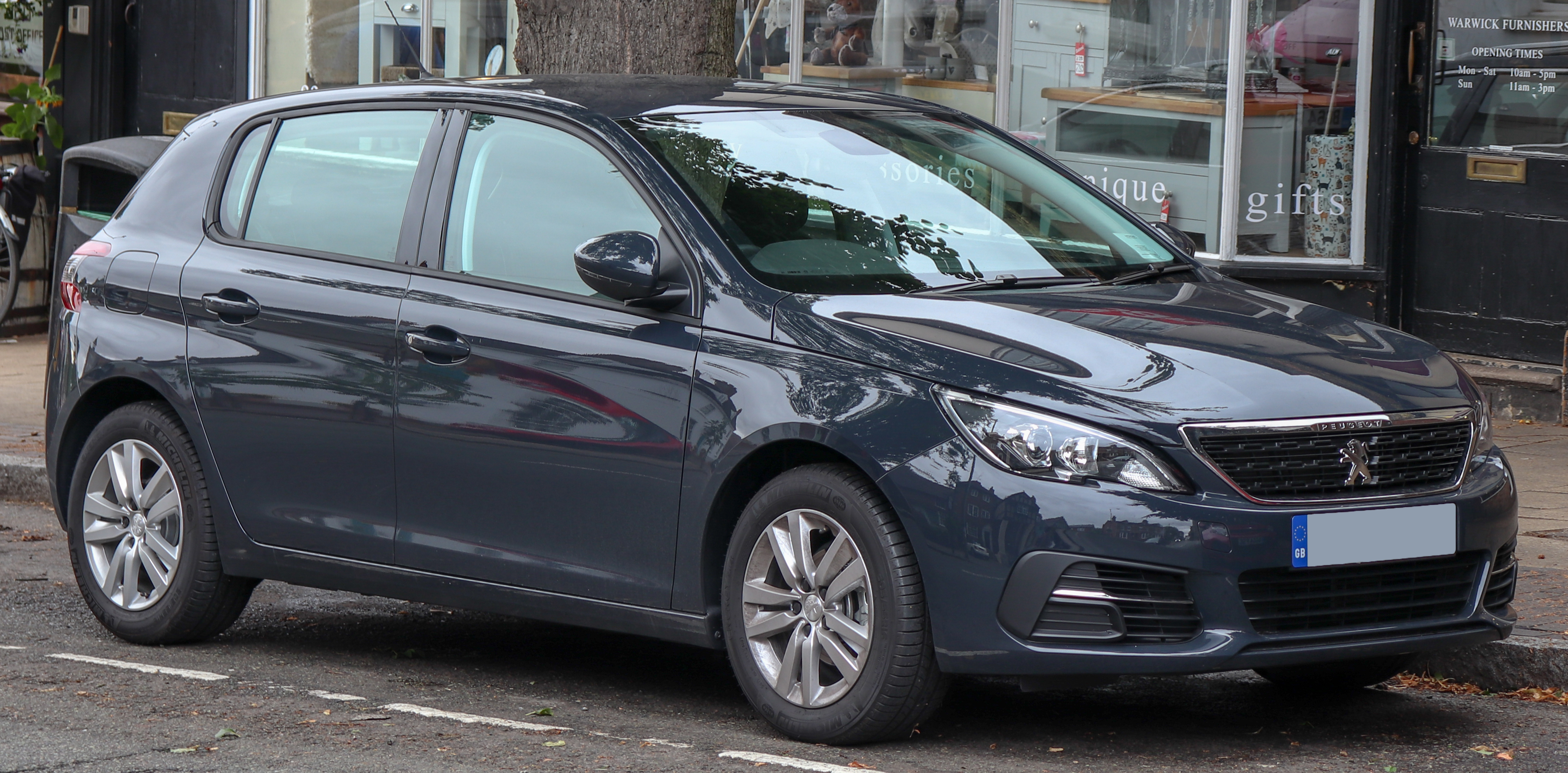 2018 Peugeot 308 Active 1.2 Front Taken in Warwick